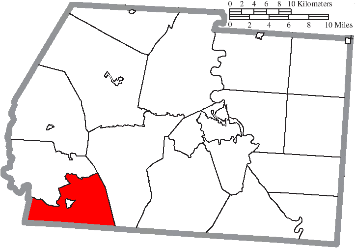 Map of the municipal and township boundaries of Ross County, Ohio, United States, as of the 2000 census, with the location of Paxton Township highlighted. Township borders are shown only in unincorporated areas in order to differentiate incorporated and unincorporated areas more clearly.